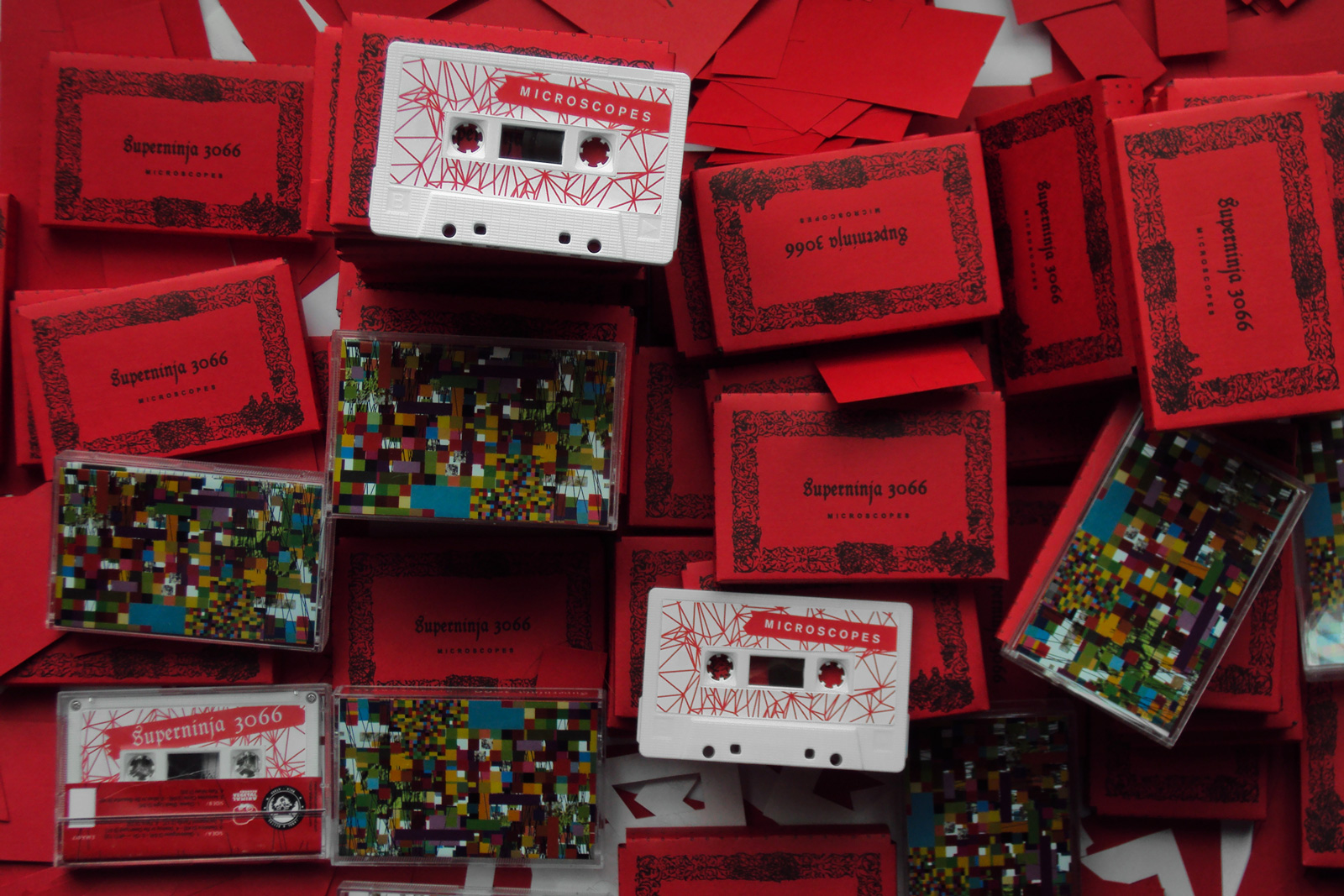 Album cassette edición limitada "Microscopes" (2008)